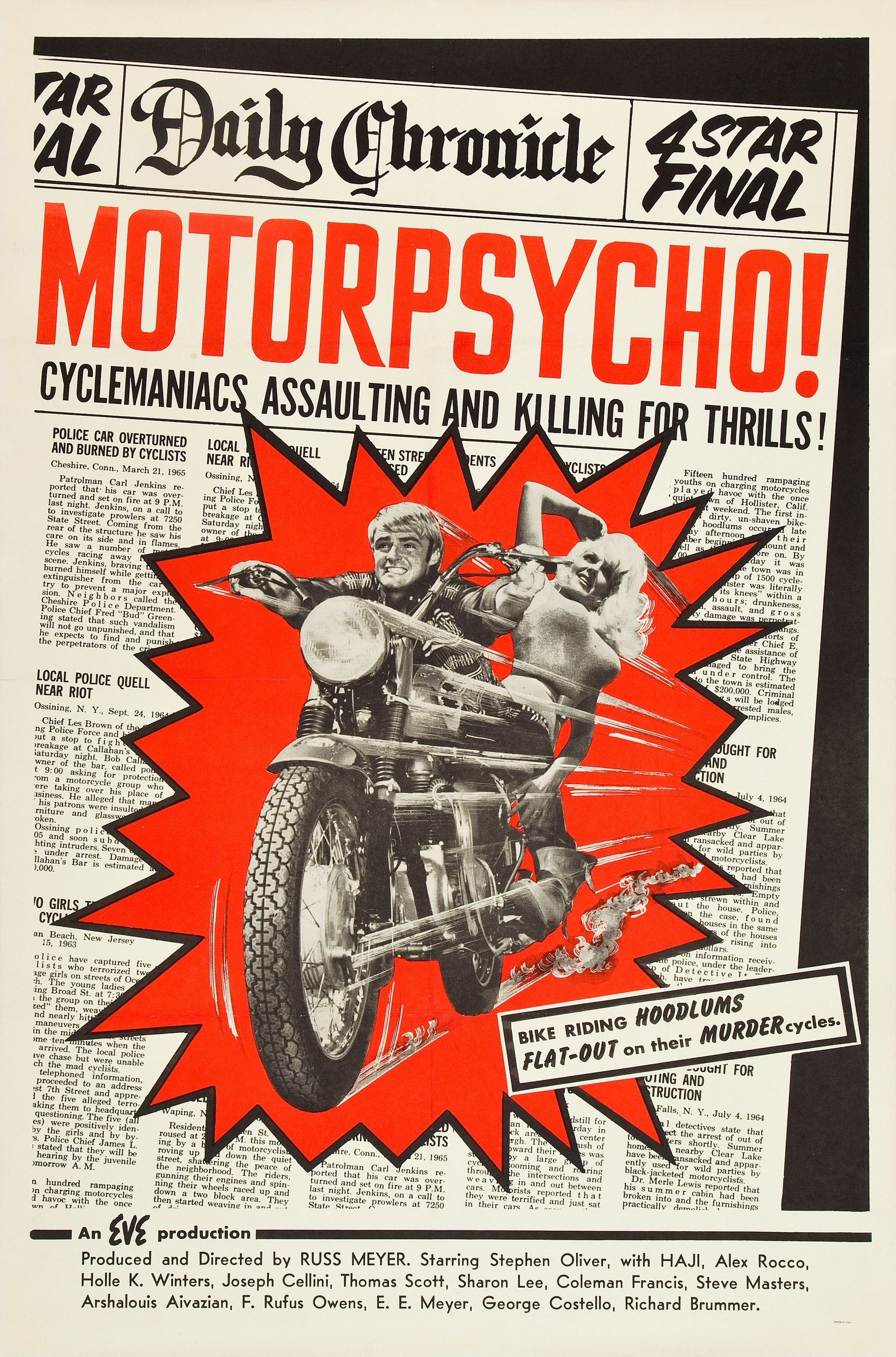 Description: Low-resolution image of poster for the film Motorpsycho (1965), directed and produced by Russ Meyer. Corporate author: Eve Productions. Source: Scan of photo from personal collection.